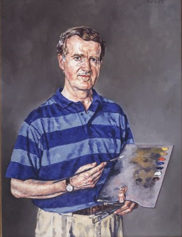 Self portrait of David Griffiths in a private collection.